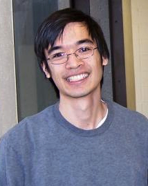 Taken in Memphis, TN in March of 2006 at the Erdos Memorial Conference.